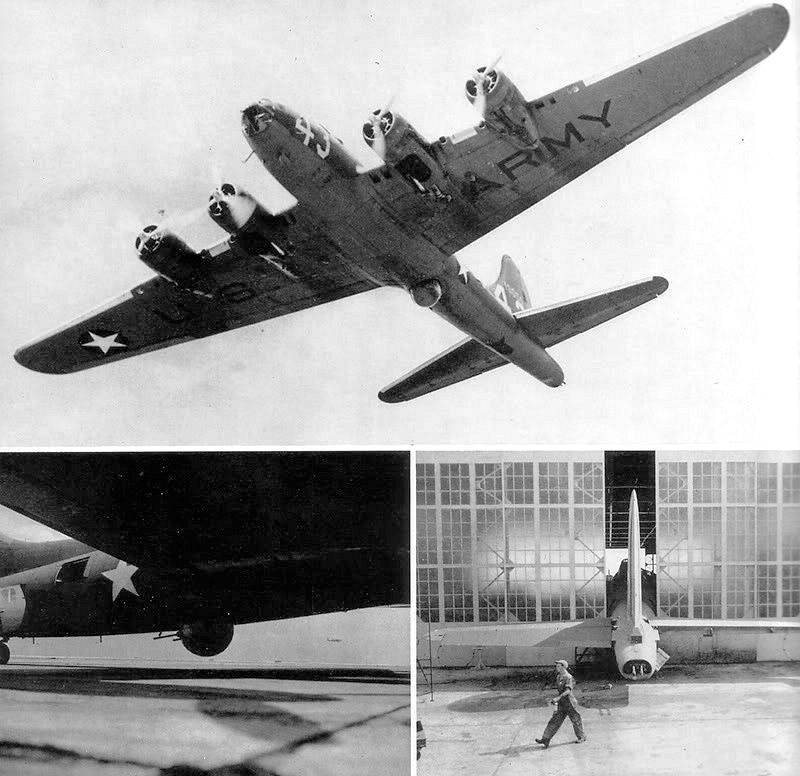 Hendricks Army Airfield - 1942 Yearbook - scenes